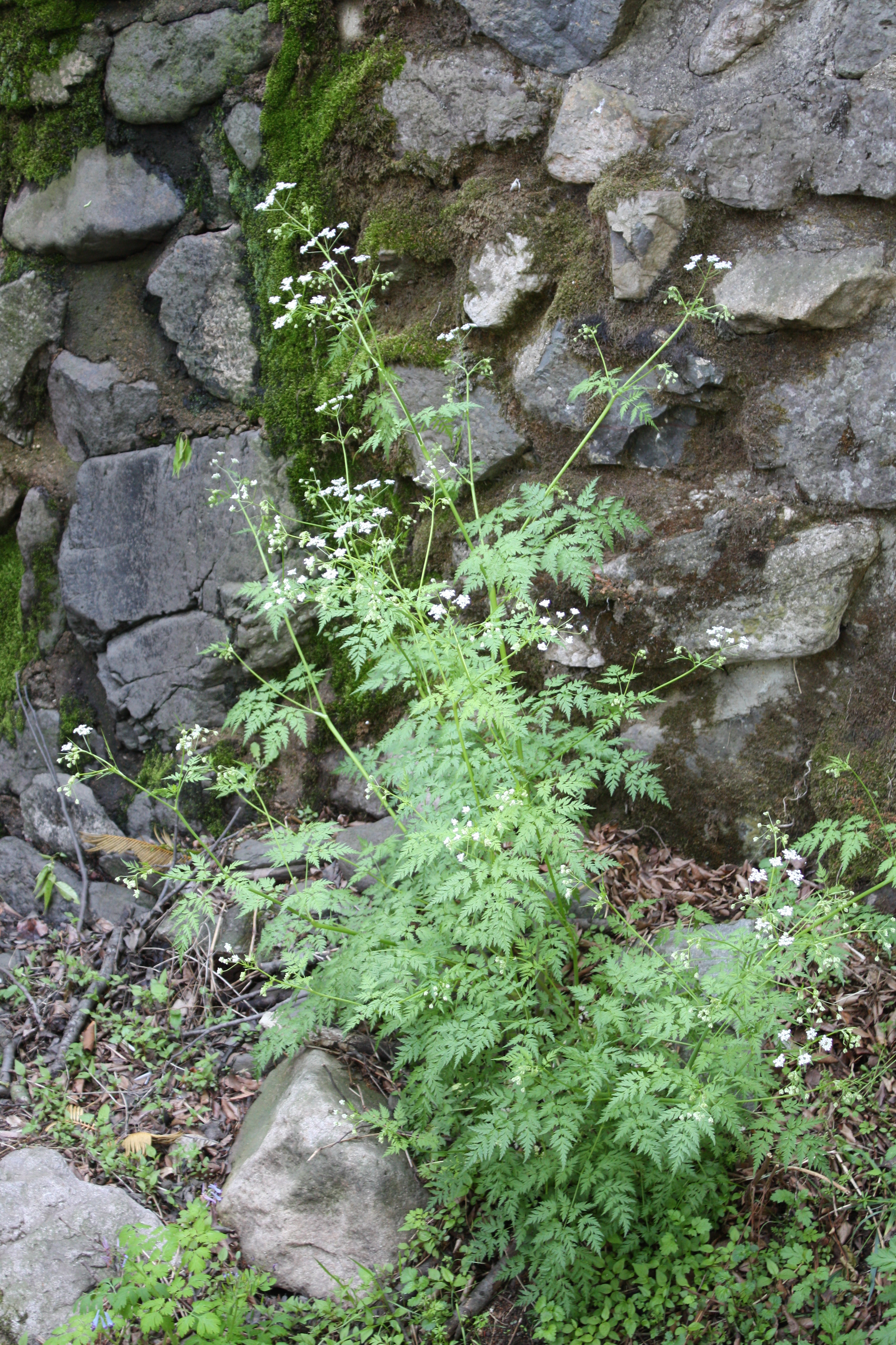 Anthriscus sylvestris